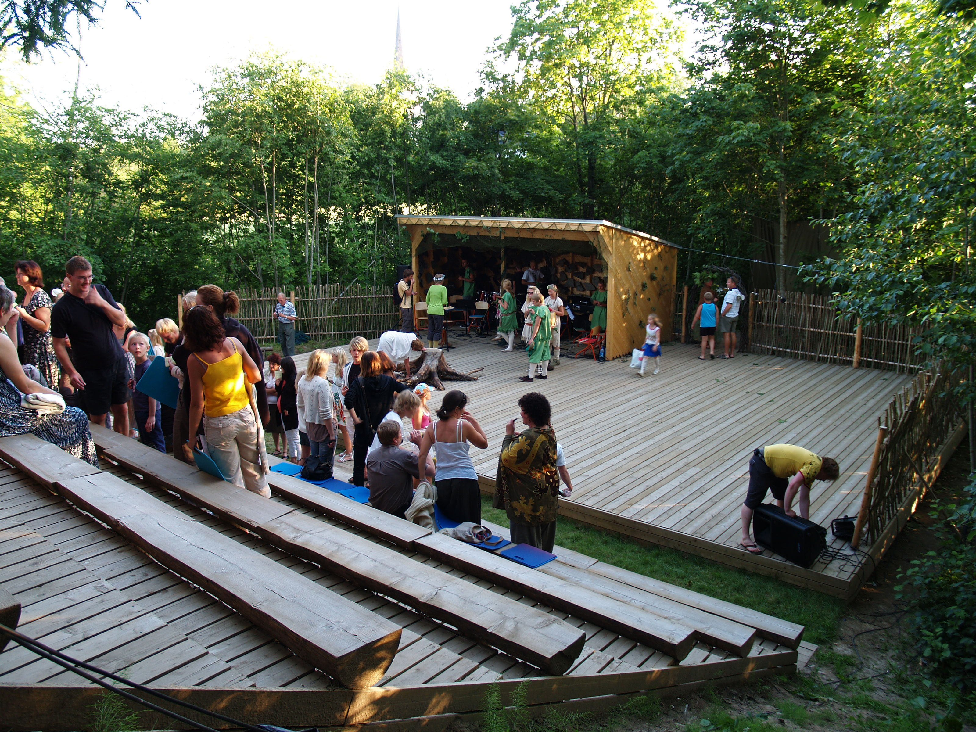 Stage in Kose, Estonia.